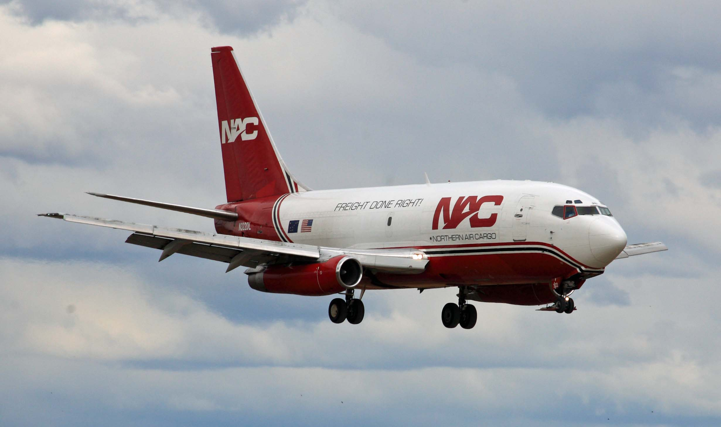 I took this photo on a cloudy, cool day in June 2011 at Anchorage's Ted Stevens International Airport. I find it amazing at the amount of air cargo that passes through ANC - we truly are at a crossroads here.